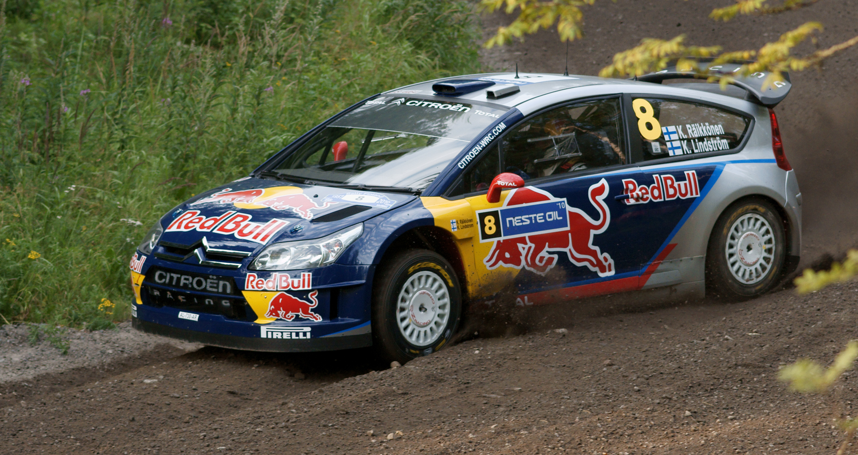 Kimi Räikkönen driving at Laajavuori special stage, Rally Finland 2010.